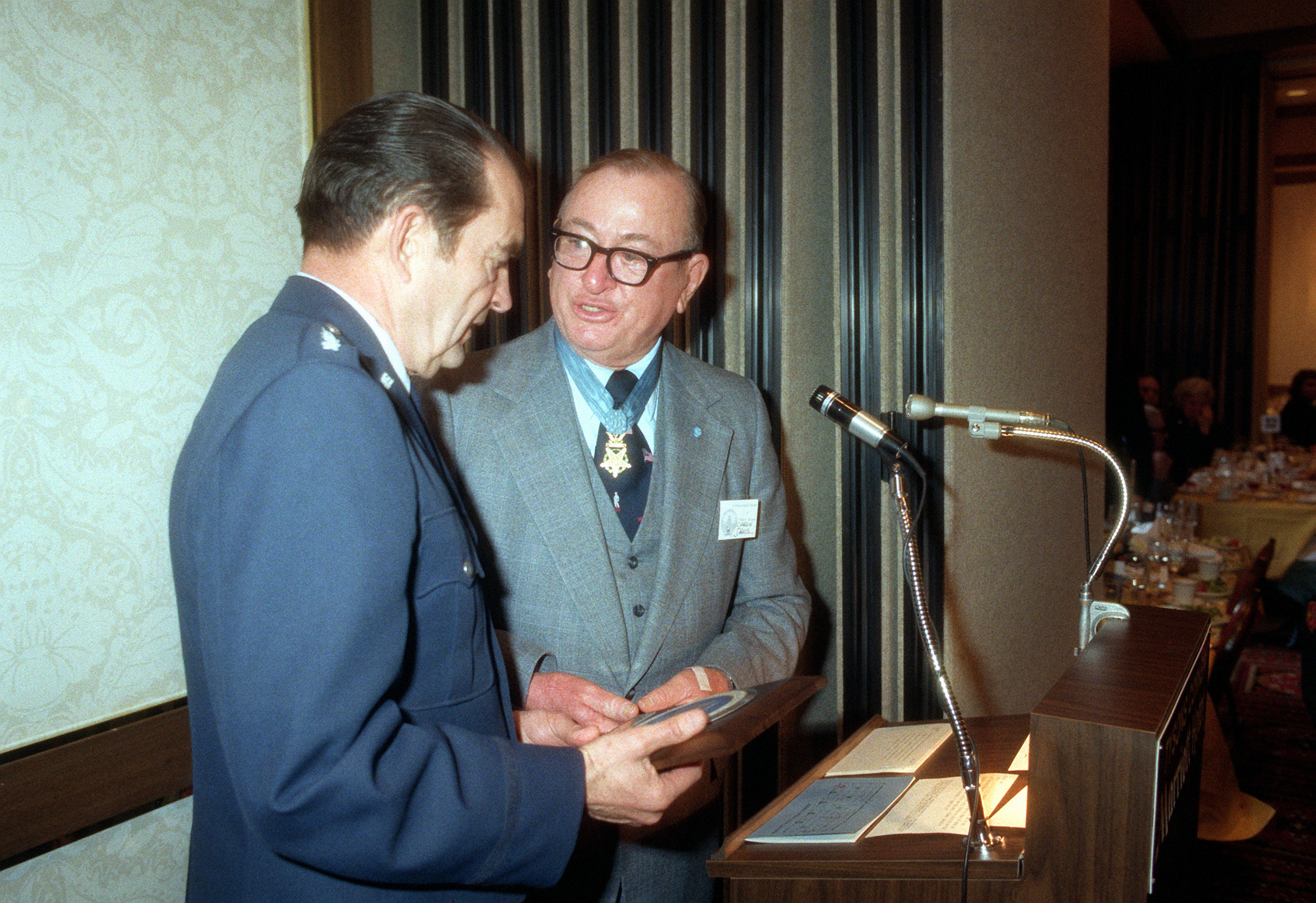 Colonel Charles W. Davis, U.S. Army, Medal of Honor recipient in January 1943, presents a plaque to General David C. Jones, chairman of the Joint Chiefs of Staff on Inauguration Day. The plaque is given by the Medal of Honor Society in recognition of outstanding work by a military person.